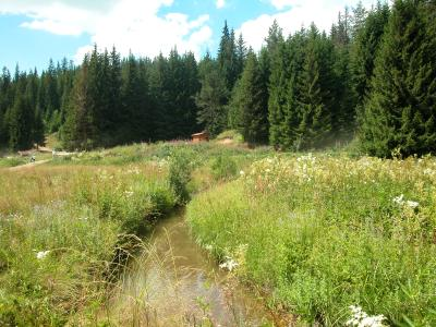 Stravorema area, full of trees (Picea Abies). Rodopi, Greece.